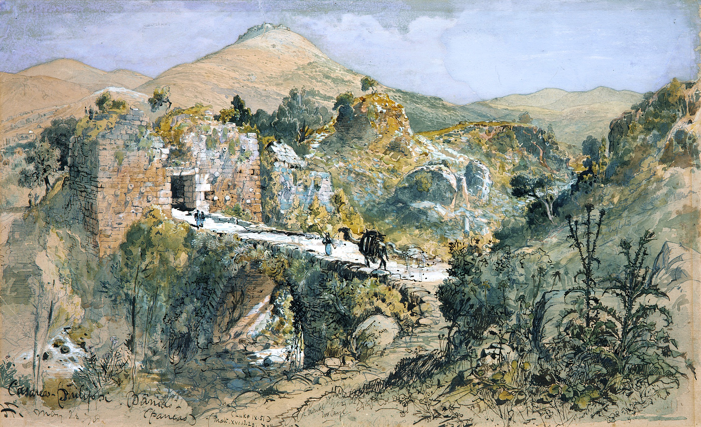 Watercolor; Drawings